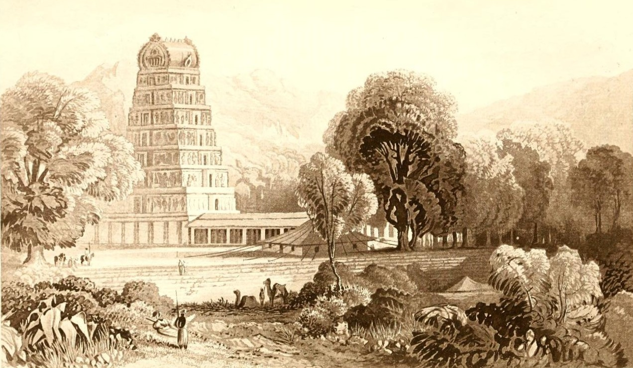 Pagoda of Papanassum (1800) — now in Papanasam, Tirunelveli district in India